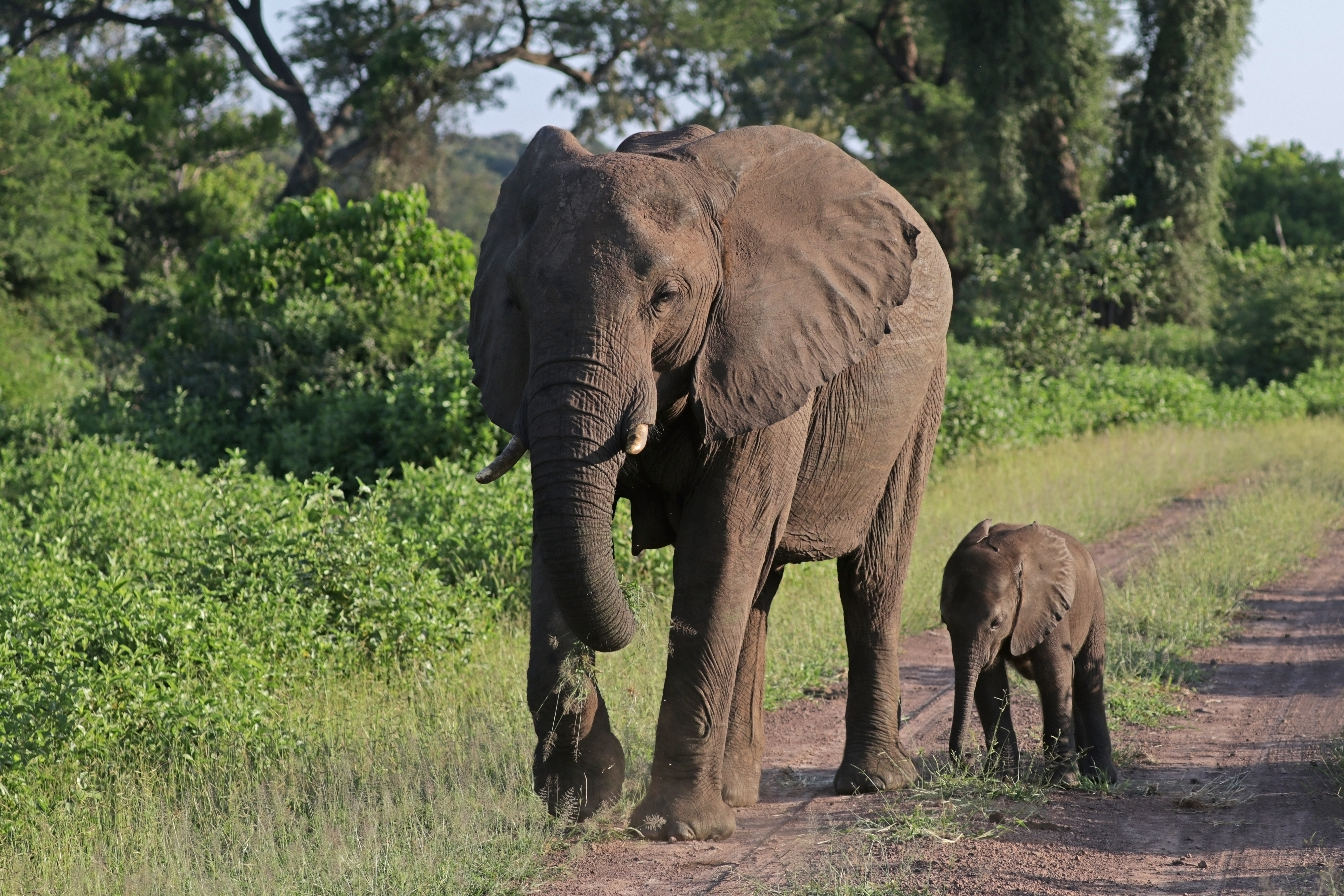 African bush elephants (Loxodonta africana) female with six-week-old baby, Matetsi Safari Area, Zimbabwe